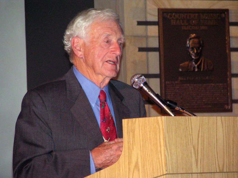 John Seigenthaler Sr. speaking at the Birmingham Regional Chamber of Commerce's "Birmingham Innovation Group" (BIG) in Nashville, Tennessee.